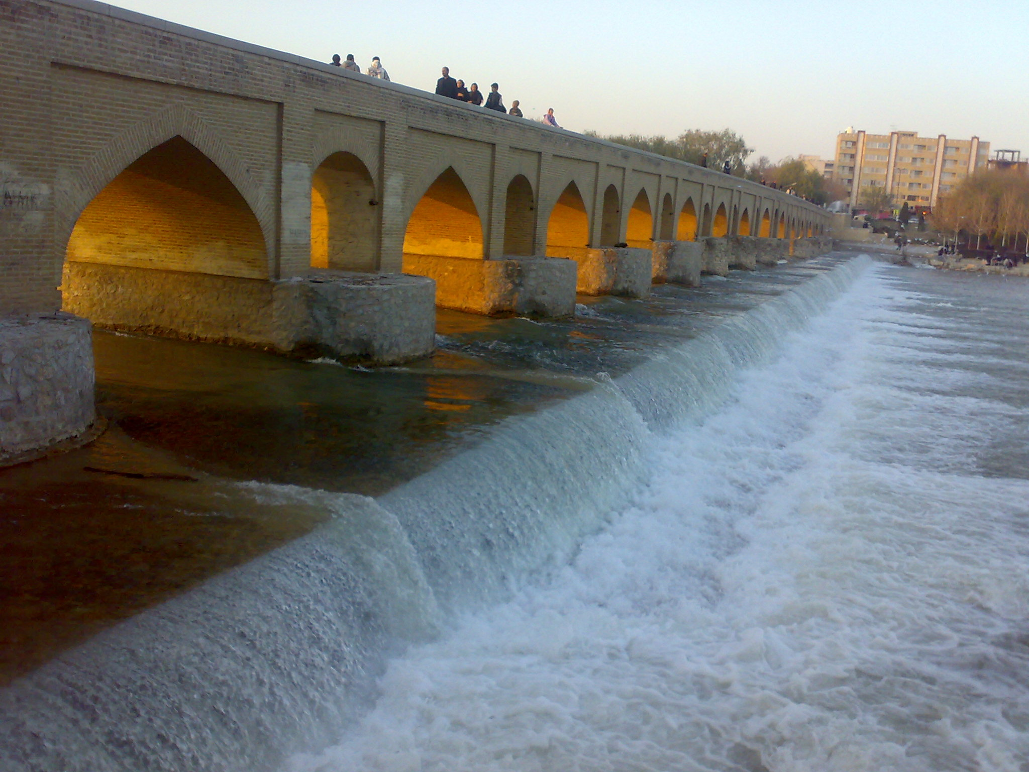 Marnan Bridge, Isfahan, Iran. West-East view.